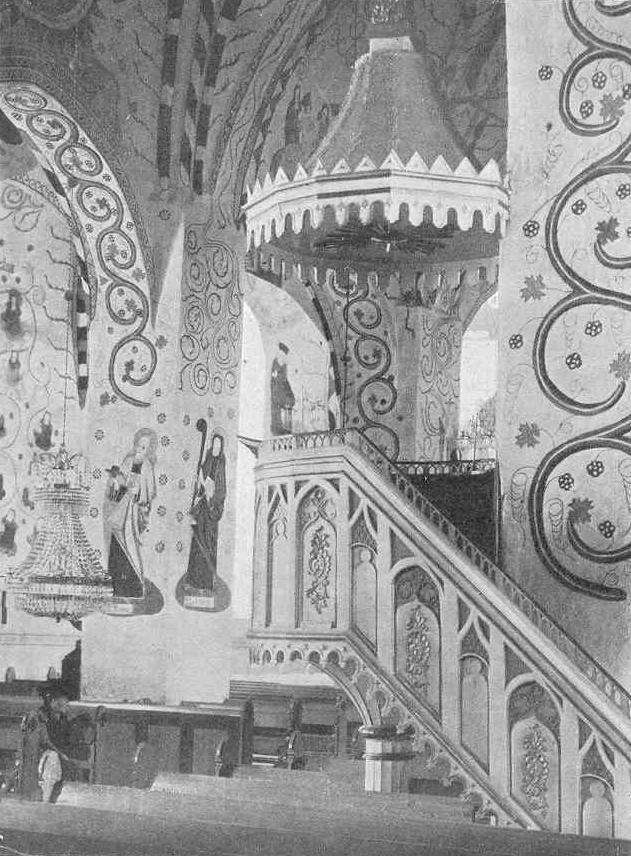 Lojo middle age church, interior view (Lohja middle age church, interior view.).